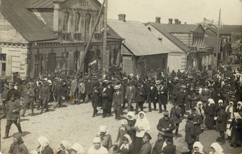 Prime Minister Kazys Grinius visiting Alytus in 1920.